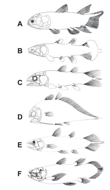 Figure 8. Comparison of body forms of a number of coelacanth taxa (not to scale): A, Miguashaia bureaui, Shultze, 1973, Upper Devonian (Frasnian), Migausha, Canada; B, Diplocercides heiligostockiensis, Jessen (1966), Upper Devonian (Frasnian), Bergisch-Gladbach, Germany; C, Serenicthys kowiensis gen. et sp. nov., Upper Devonian (Famennian), Grahamstown, South Africa; D, Allenypterus montanus Melton 1969, Lower Carboniferous (Namurian), Montana, USA; E, Rhabdodema elegans, (Newberry, 1856), Upper Carboniferous (Westphalian), Linton, Ohio, USA; F, Latimeria chalumnae Smith 1939, recent, east coast of Africa. (Images modified after Cloutier, 1996 (A), Jessen, 1973 (B), Forey, 1998 (D), Forey, 1981 (E), Millot and Anthony, 1958 (F).)